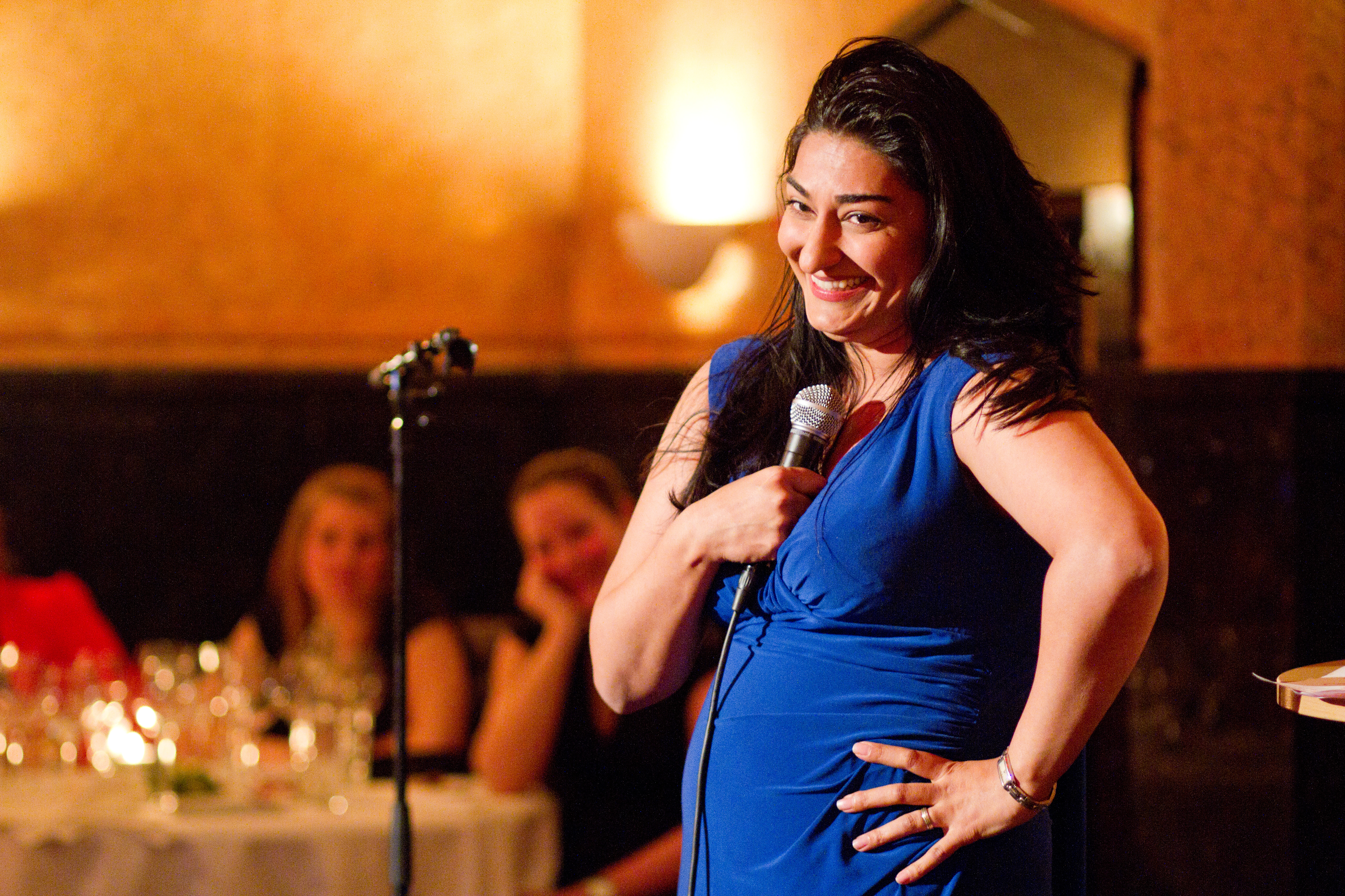 Shabana Rehman Gaarder standup during the Girl Dinner 2011 arranged by Start NHHNorsk bokmål: Shabana Rehman Gaarder under Jentemiddagen 2011 arrangert av Start NHH